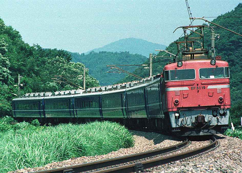 JNR Class EF81 electric locomotive EF81 19 on a Kaga express service